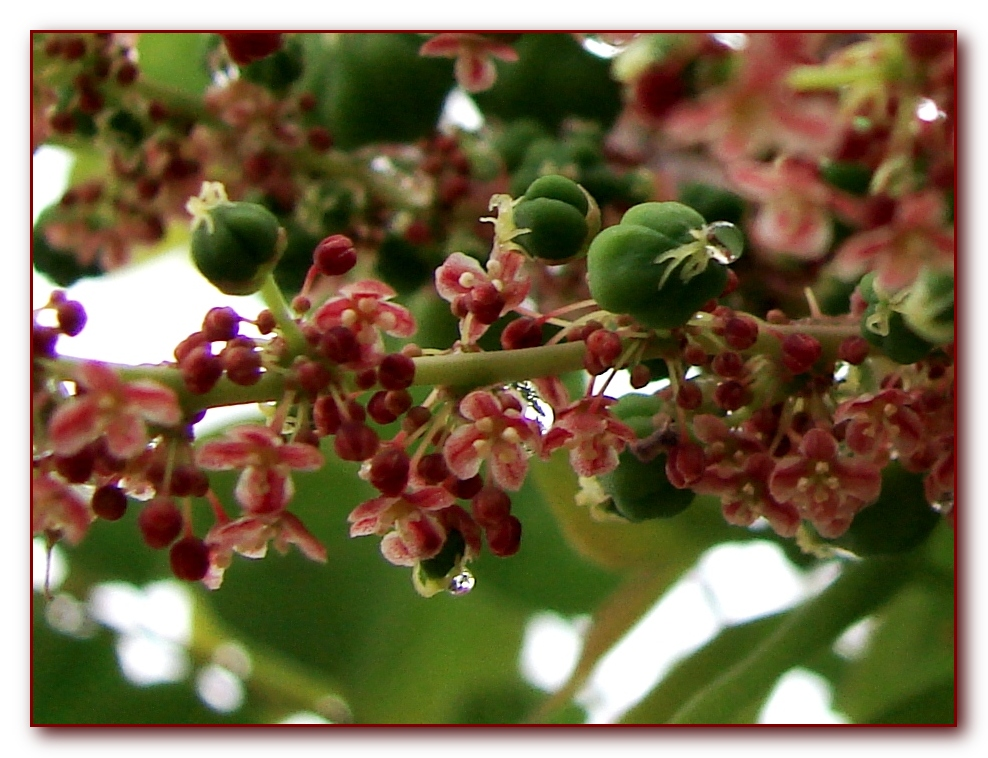 Phyllanthus acidus - Malay gooseberry, Otaheite gooseberry. Despite its name, the plant does not resemble the gooseberry, except for the acidity and colour of its fruits. It is deciduous tree believed to be native to Madagascar, but has spread to many tropical (and a few subtropical) places in the world, where it is appreciated for its small numerous and edible fruits. The flowers can be male, female or hermaphrodite. They are tiny and pinkish. The fruits (drupes) are pale yellow or white, waxy, crisp and juicy, and very sour. It has only one seed in each fruit. The juice can be used in beverage, or the fruit pickled in sugar. When cooked with plenty of sugar, the fruit turns ruby red and produces a kind of jelly.